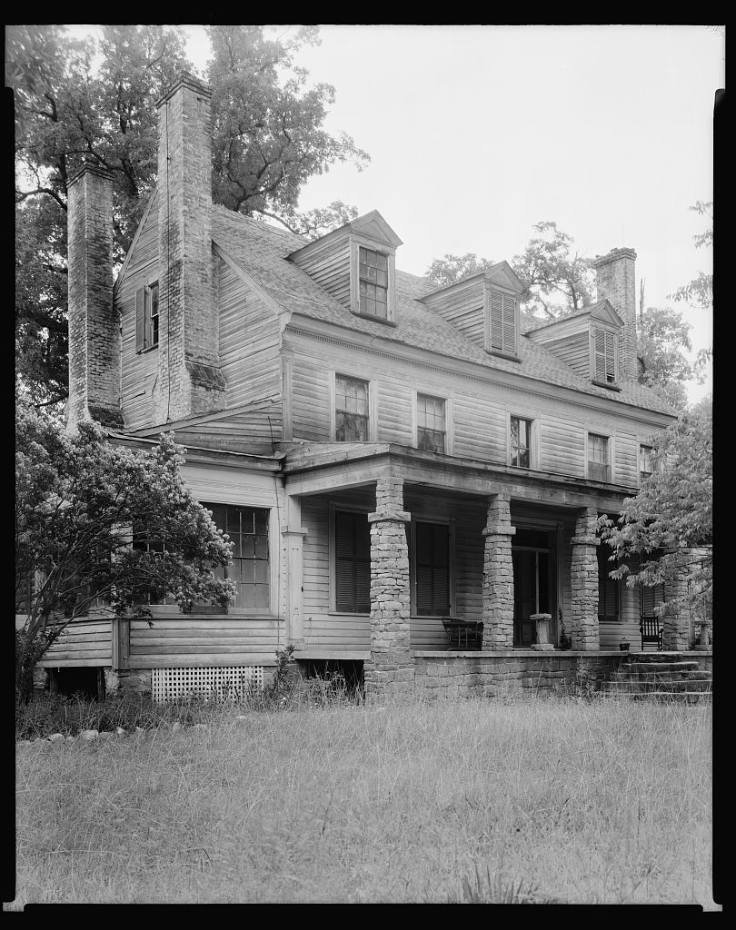 Title: Pleasant Hill, Vance County, North Carolina Creator(s): Johnston, Frances Benjamin, 1864-1952, photographer Date Created/Published: 1938. Medium: 1 negative : safety film ; 8 x 10 in. Reproduction Number: LC-DIG-csas-03194 (digital file from original negative) Rights Advisory: No known restrictions on publication. Call Number: LC-J7-NC- 2979 [P&P] Repository: Library of Congress Prints and Photographs Division Washington, D.C. 20540 USA Notes: Alternate title: Riven Oaks. Title from photographer's inventory. Building/structure dates: 1759. Built by Philemon Hawkins. Corresponding reference print in LOT 11839-91. Credit line: Carnegie Survey of the Architecture of the South, Library of Congress, Prints and Photographs Division. Purchase; Frances Benjamin Johnston estate; 1953. General information about the Carnegie Survey of the Architecture of the South available at Forms part of: Carnegie Survey of the Architecture of the South (Library of Congress).